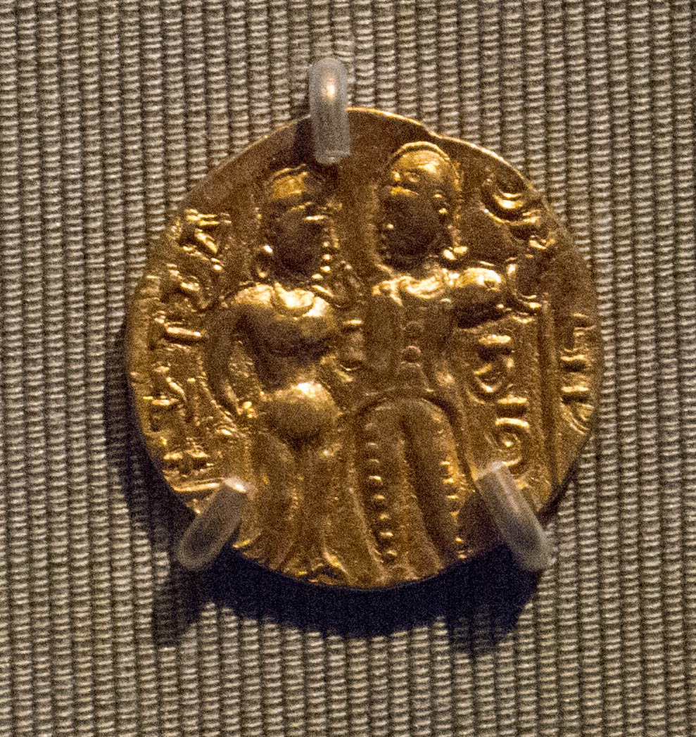 Coin of the Gupta king Chandragupta I. Date: approx. 320-330. Gold. Diam. 2.2 cm. Asian Art Museum, San Francisco.